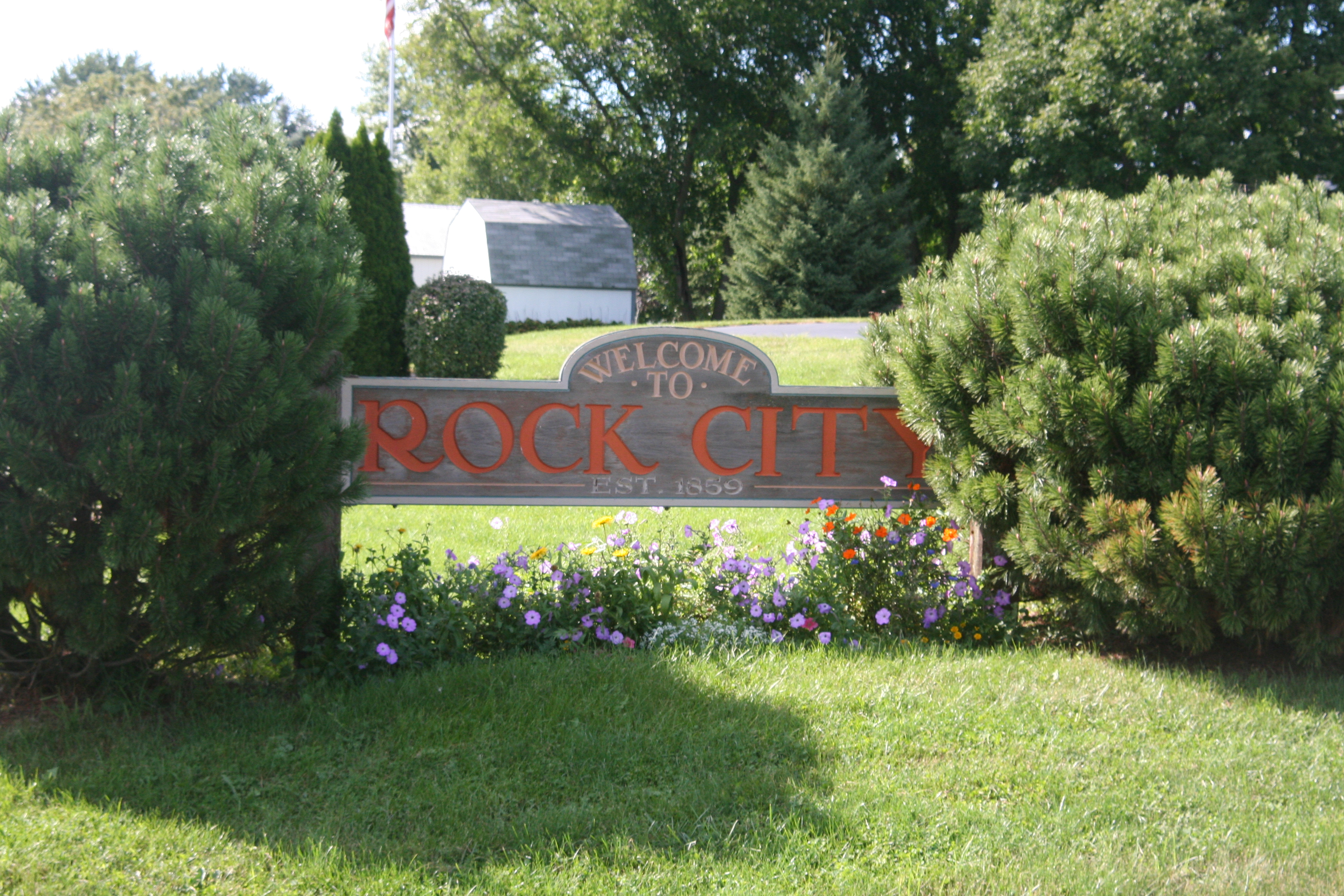 Sign leading into Rock City, Stephenson County, Illinois, USA.